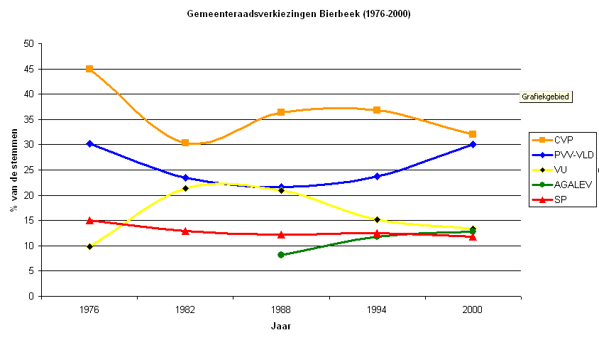 Chart of municipal election results by party in Bierbeek 1976-2000.